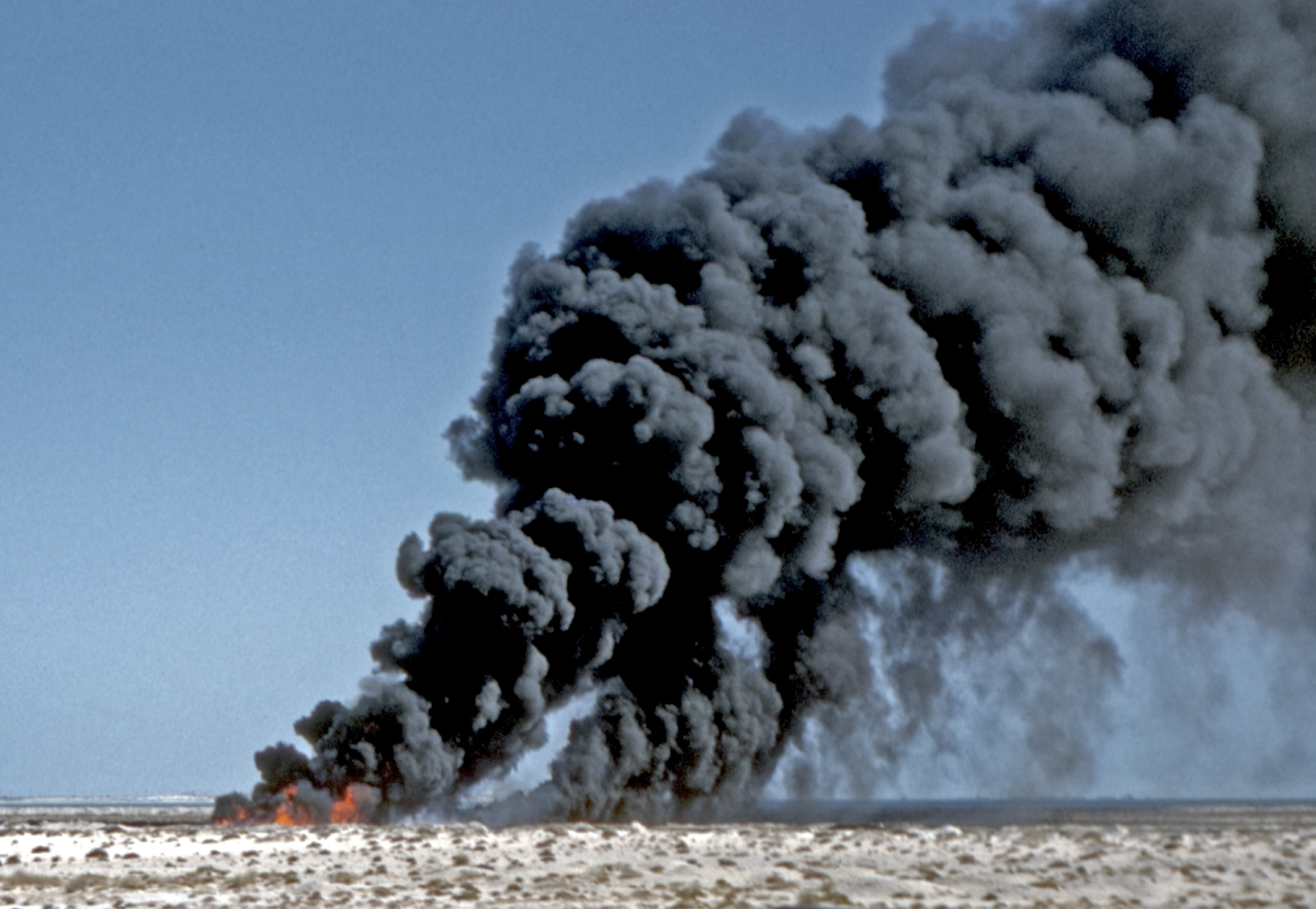 Oil waste burn off on the Ras Tanura peninsula, Kingdom of Saudi Arabia. (Scanned from 35mm Kodachrome slide)